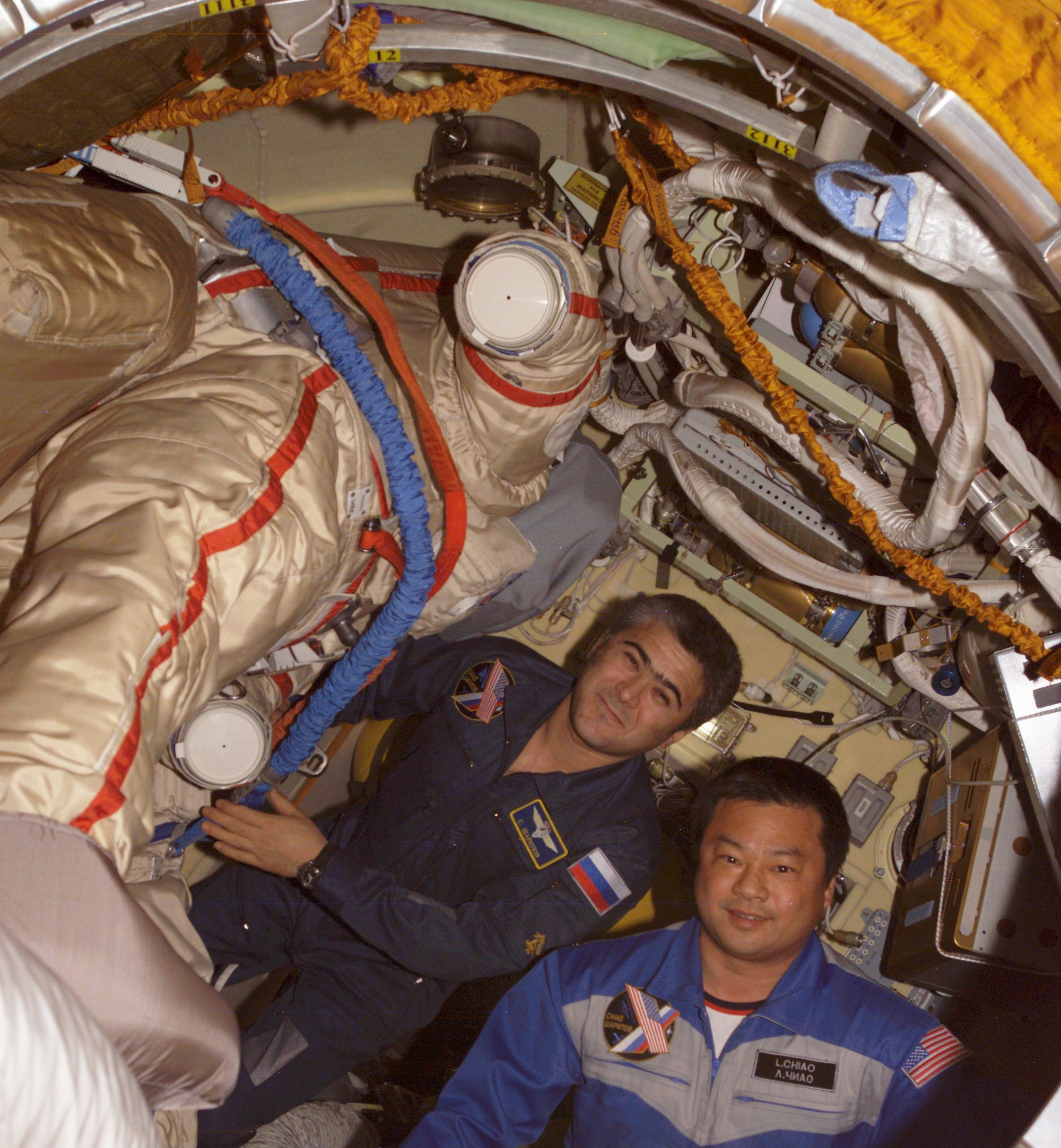 Expedition 10 crew works in PIRS docking module. Astronaut Leroy Chiao (right), Expedition 10 commander and NASA ISS science officer, and cosmonaut Salizhan S. Sharipov, flight engineer representing Russia's Federal Space Agency, work with their Russian Orlan spacesuits in the Pirs Docking Compartment of the International Space Station (ISS).